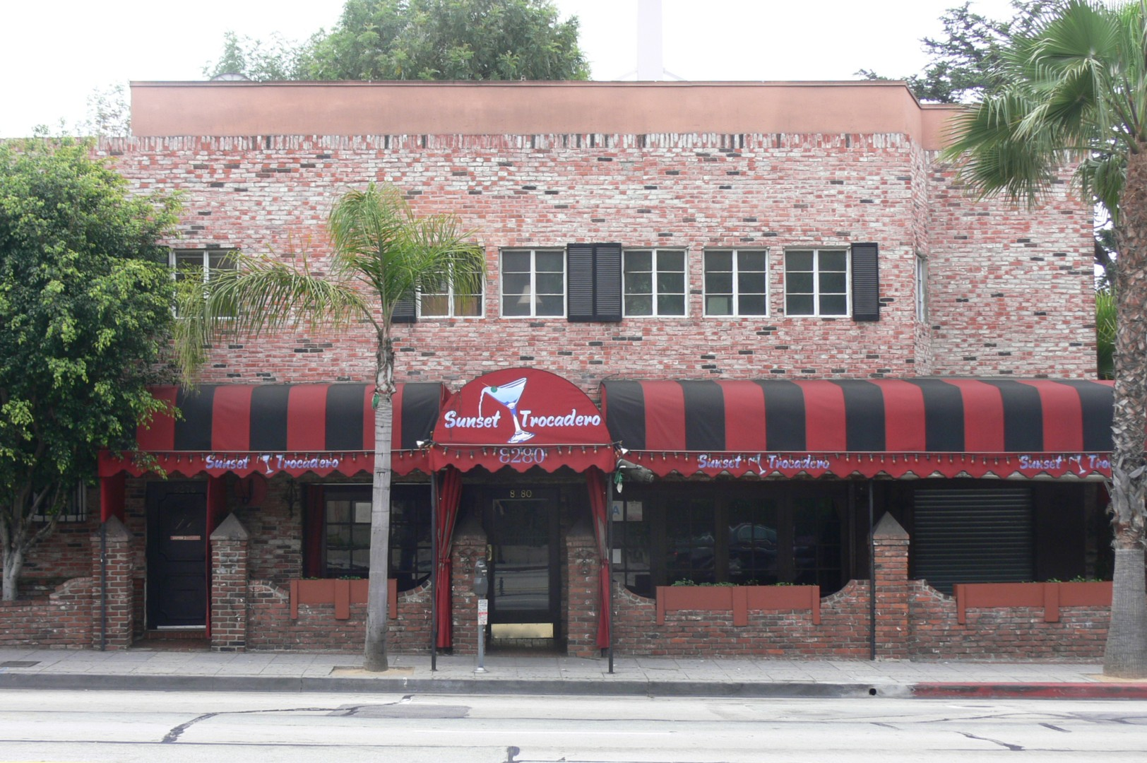 The Sunset Trocadero nightclub, 8280 W Sunset Blvd West Hollywood, CA. Photograph by Mike Dillon, May 10, 2006.